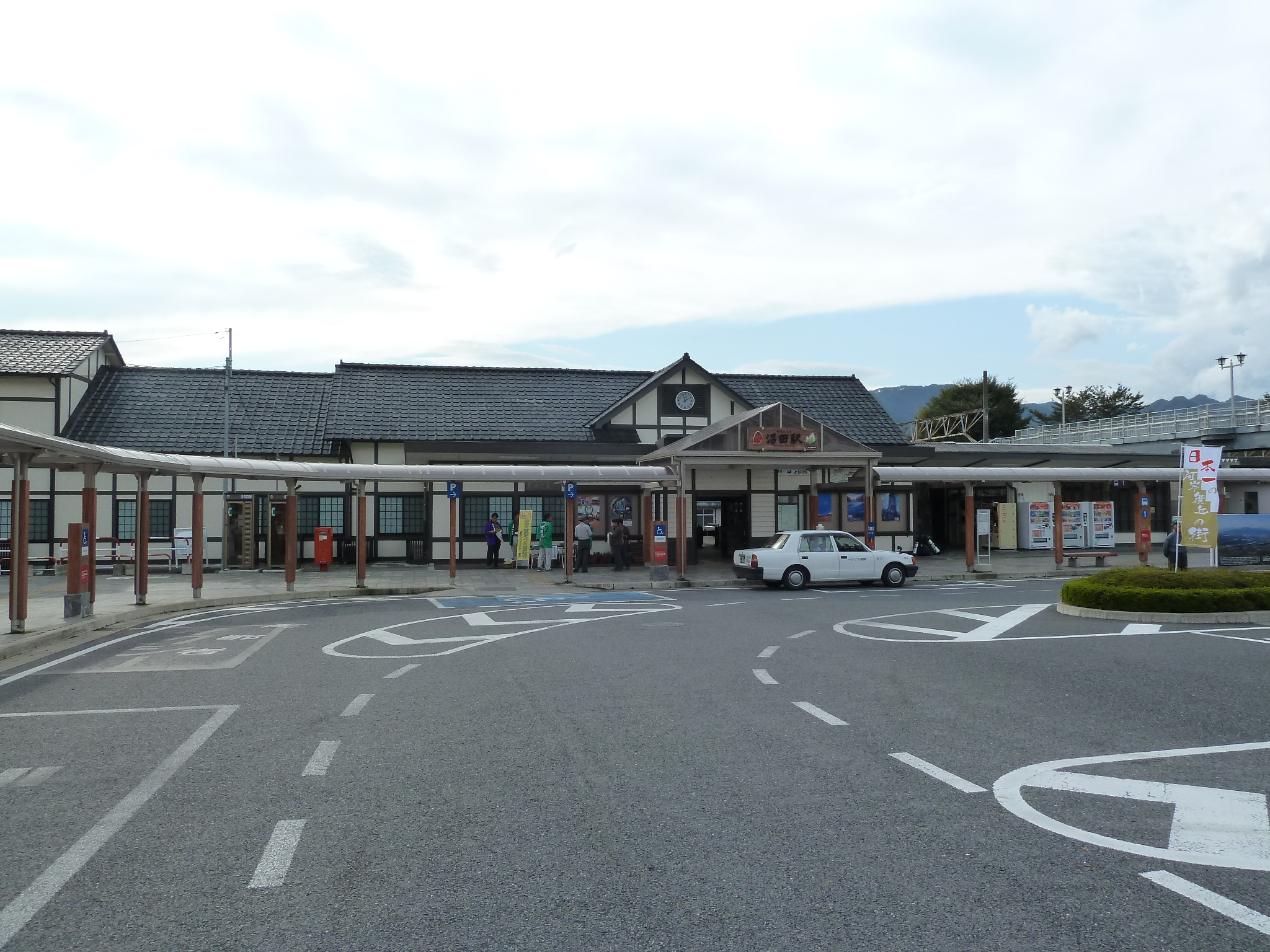 Numata Station on the JR Joetsu line. (3155 Shimizucho, Numata-shi, Gunma-ken, Japan)